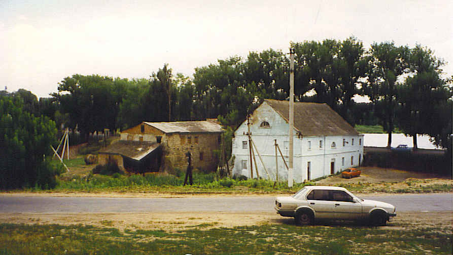 Key words: Medzhybizh These 19th century buildings are mills that make use of the dam and lake on the Yuzhny Bug river. The dam can be seen just behind the buildings and the lake is in the distance. Milling was a concession granted by noble class who owned the town. It was a lucrative profession.